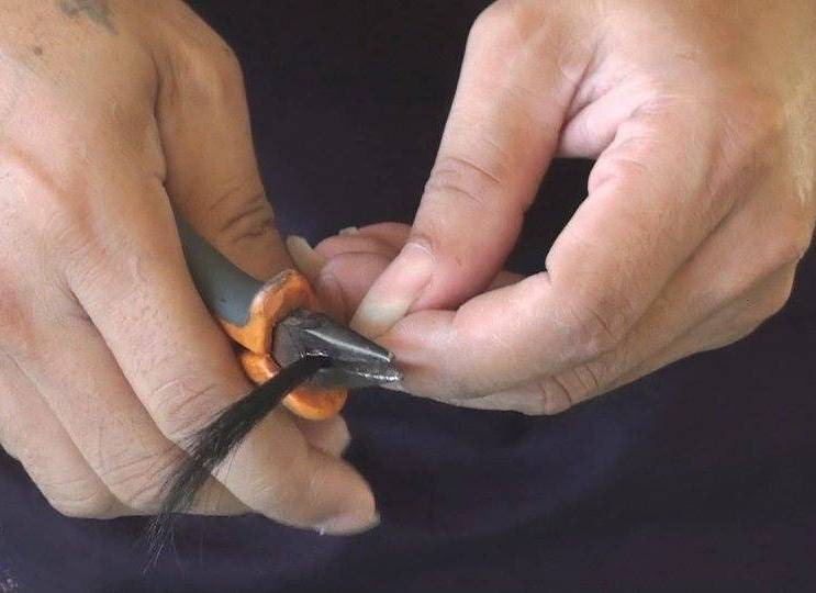 Paint Brush Making from strands of hair of the Painter